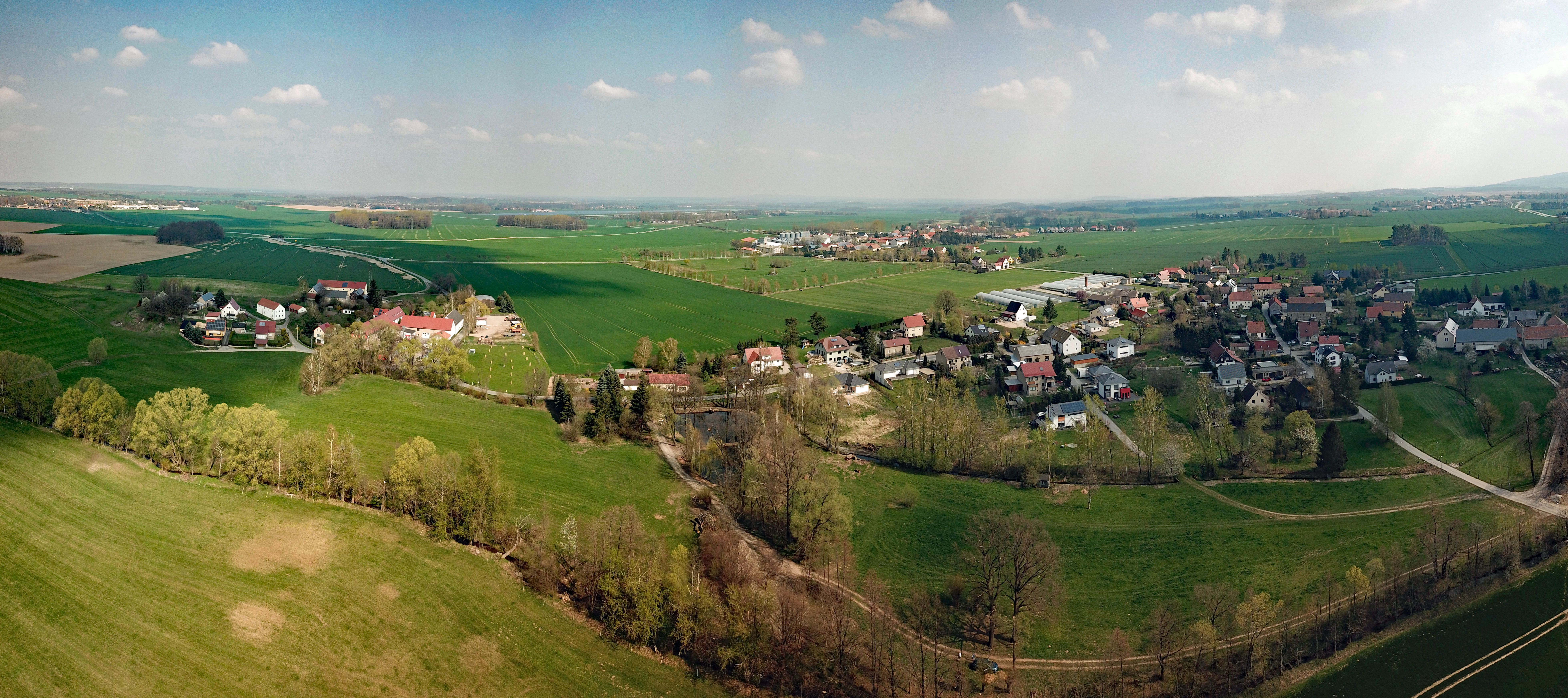 Zieschütz (Kubschütz, Saxony, Germany) Hornjoserbsce: Powětrowy wobraz Jenkec a Cyžec Dieses Foto wurde mit einem Quadcopter innerhalb der RMZ des Flugplatzes EDAB aufgenommen. Der Flugleiter wurde am Aufnahmetag telephonisch über Ort und Zeit informiert und hat zugestimmt. Der Flug erfolgte auf Grundlage der Allgemeinverfügung der Landesdirektion Sachsen zur Erteilung der Betriebserlaubnis für unbemannte Luftfahrtsysteme und Flugmodelle gemäß § 21a LuftVO und Zulassung von Ausnahmen von Betriebsverboten gemäß § 21b LuftVO für den Freistaat Sachsen.